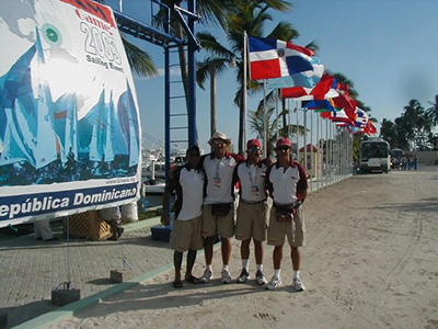 Rene Alvarez and his team at the Pan American Games 2003. Class J / 24